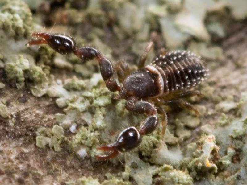 Pseudoscorpion found under the bark of a Sycamore tree at Shelby Park in Nashville, Tennessee.